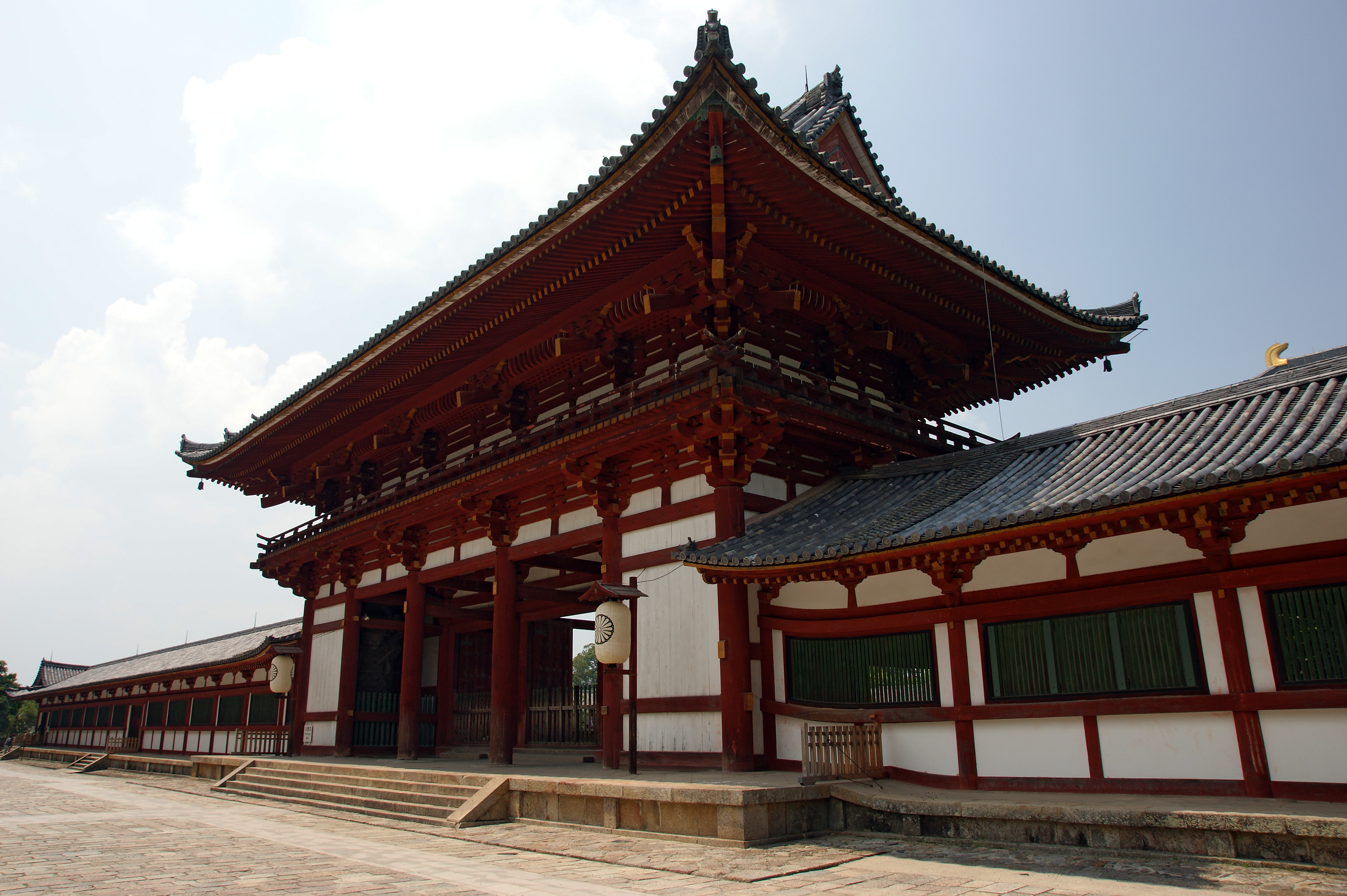 Todaiji in Nara, Nara prefecture, Japan